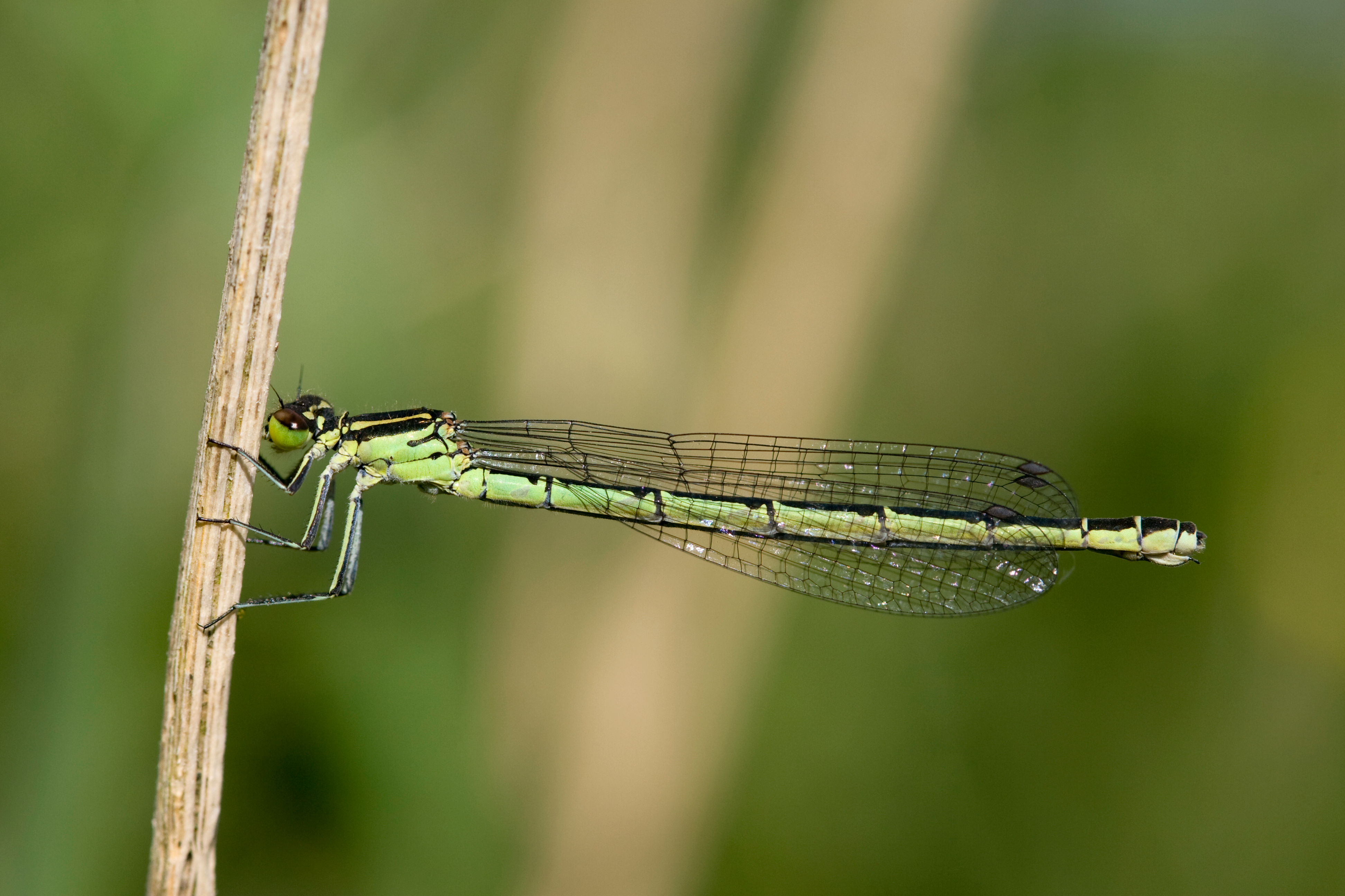 A female of the Northern Damselfly (Coenagrion hastulatum) in the Ahlenmoor, a peatland in northern Lower Saxony, Germany. Note the characteristic shape of the hind margin of pronotum and the straight-line drawing of the second abdominal segment, so more green can be seen in dorsal view.